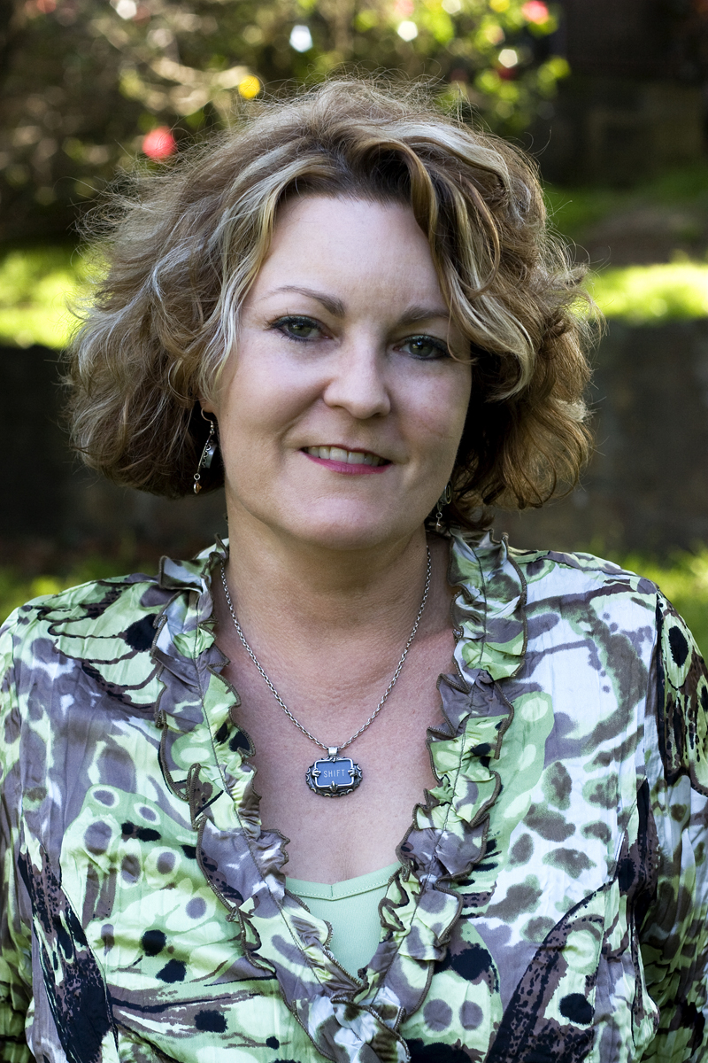 Cat Sparks (author)